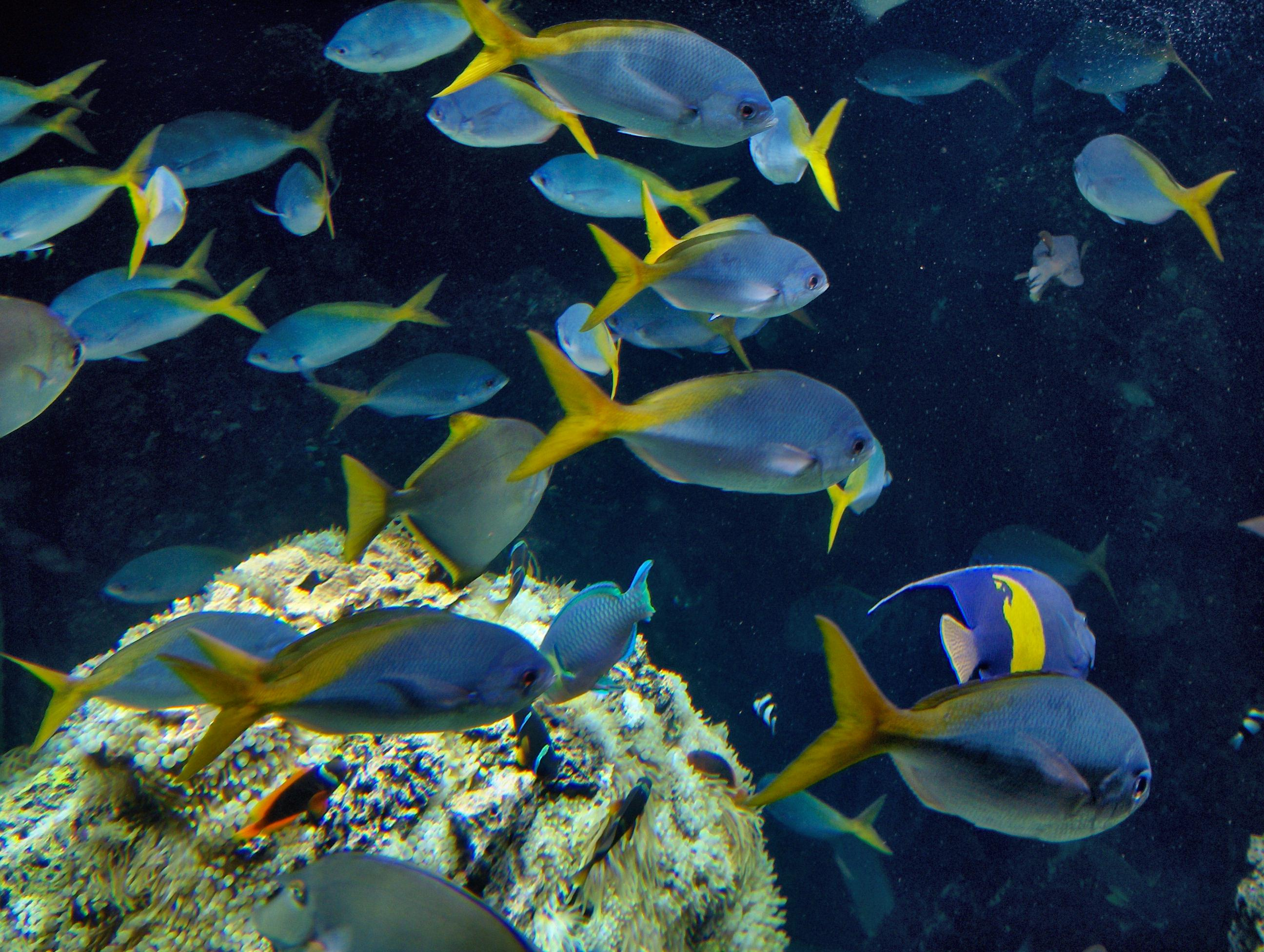 Yellow-and-blueback fusilier (Caesio teres), Musée Océanographique de Monaco